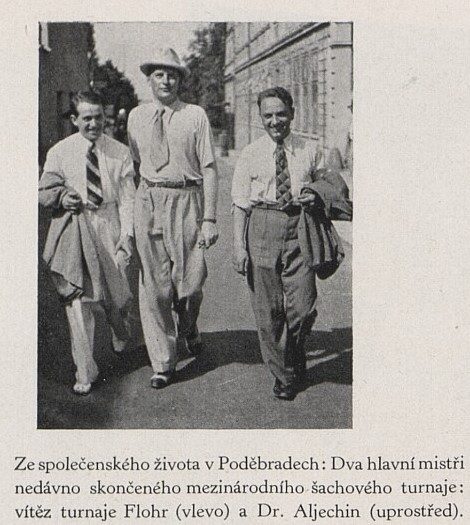 Alexander Aljechin in Czechoslovakia (Poděbrady) 1936